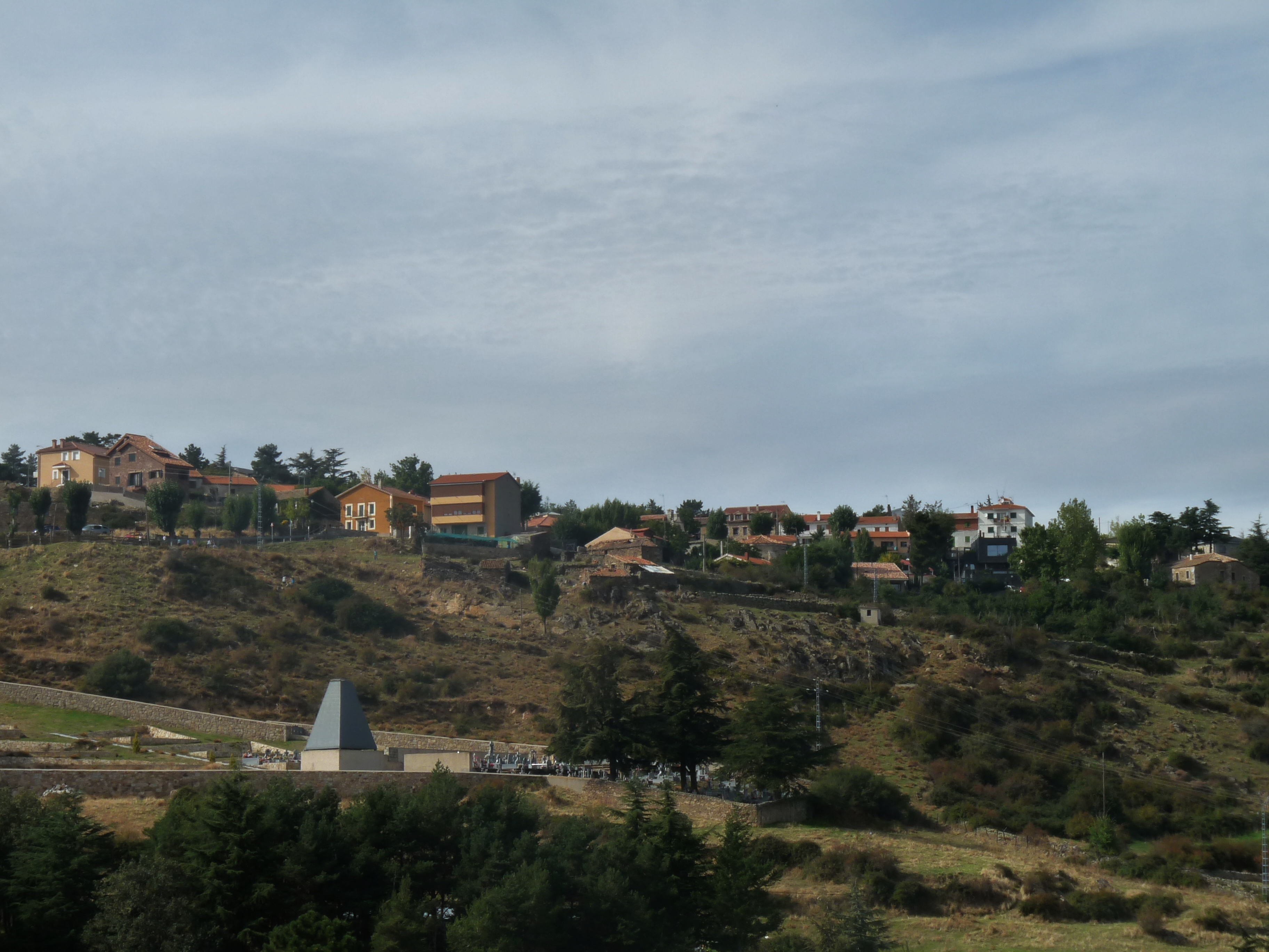 View of Santa María de la Alameda, Community of Madrid